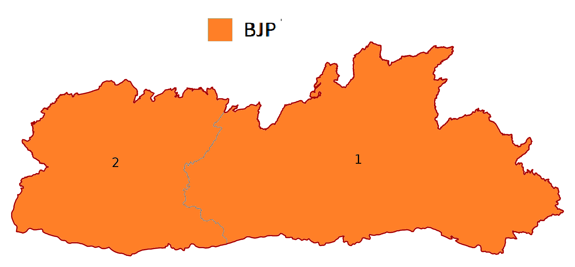 Seat Sharing of NDA in Meghalaya in General Election, 2019